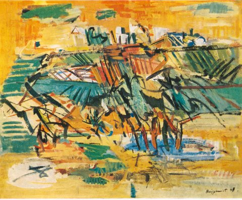 Edmond Boissonnet